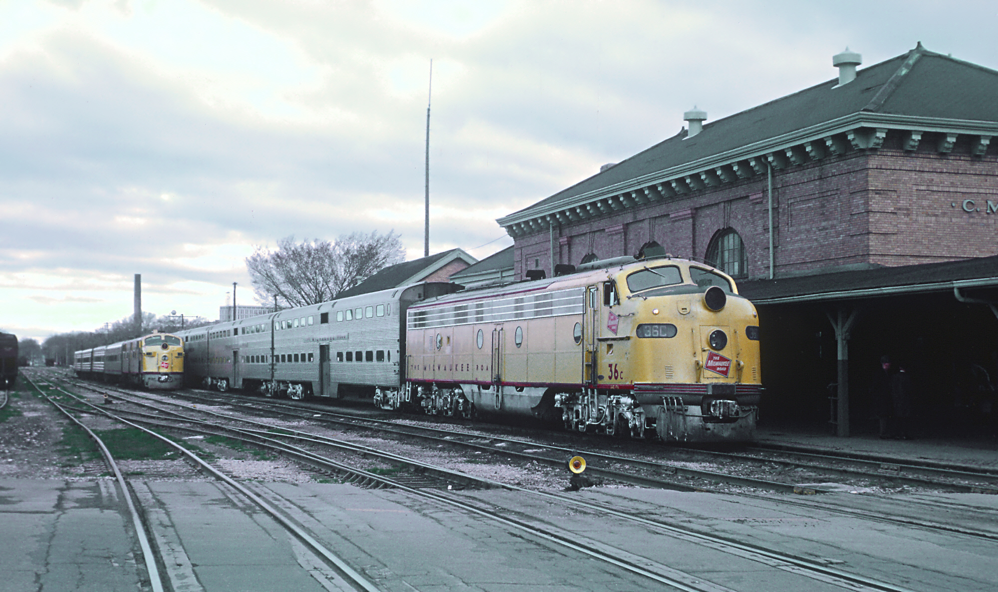 MILW 36C (E9A) with a Student Special and at the left Train 118, The Varsity, at the Madison. Wisc. Station in May 1967. (This is a Rick Burn photo from the Roger Puta collection)